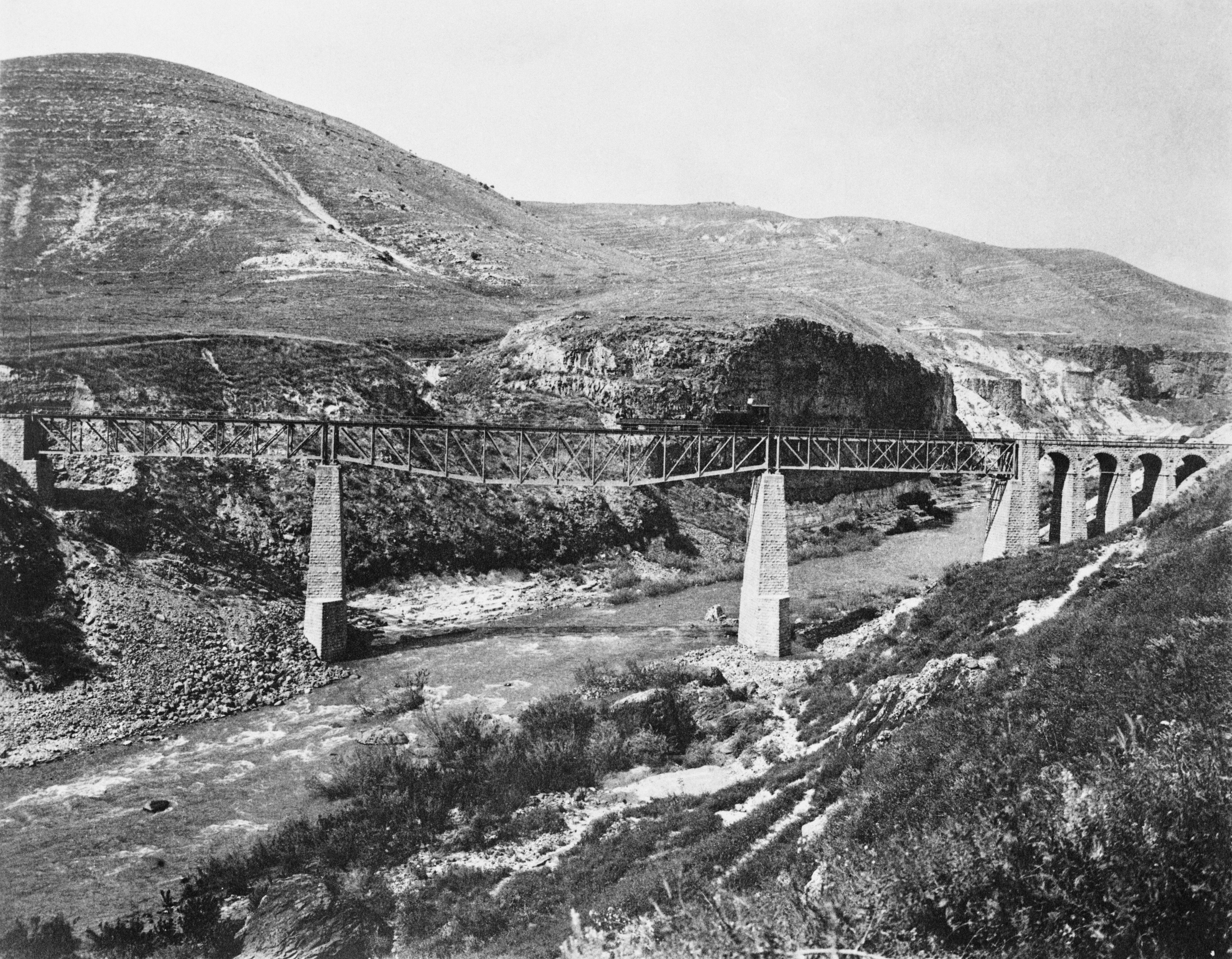 T E Lawrence and the Arab Revolt 1916 - 1918 Hejaz Railway - The first and largest girder railway bridge after entering the Yarmuk Valley. Colonel Lawrence tried to destroy this bridge during his first ride through Syria in June 1917.